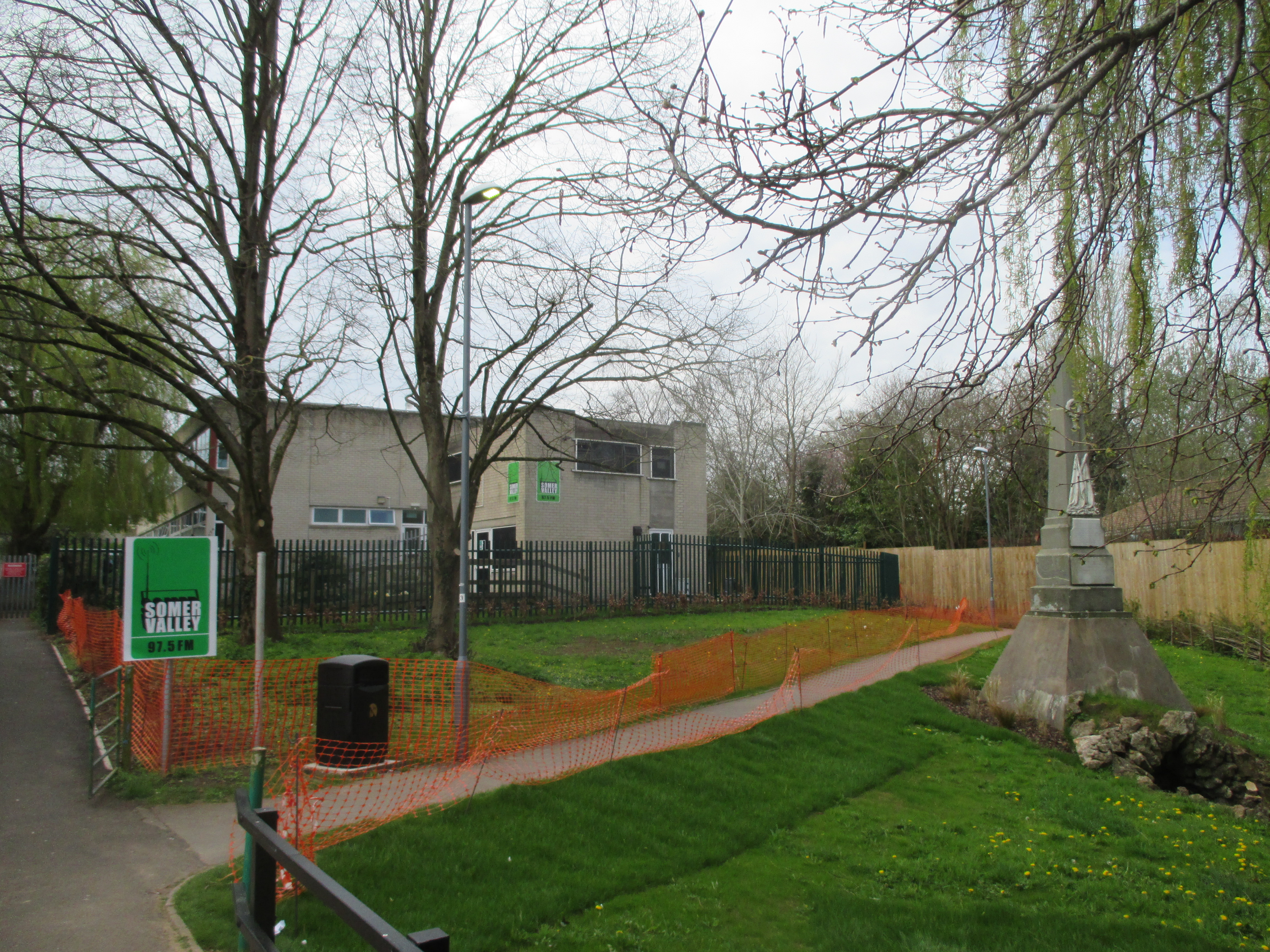 Somer Valley FM radio station and Crimean War monument, Midsomer Norton.